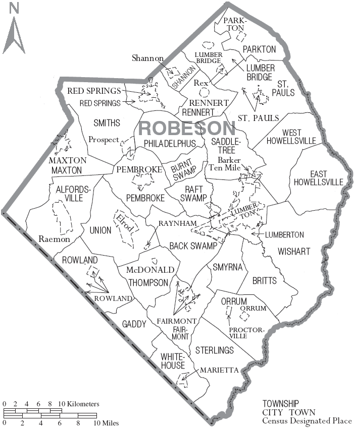 Map of Robeson County, North Carolina, United States with township and municipal boundaries